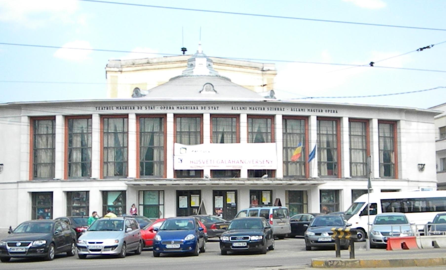 Hungarian Theatre of Cluj